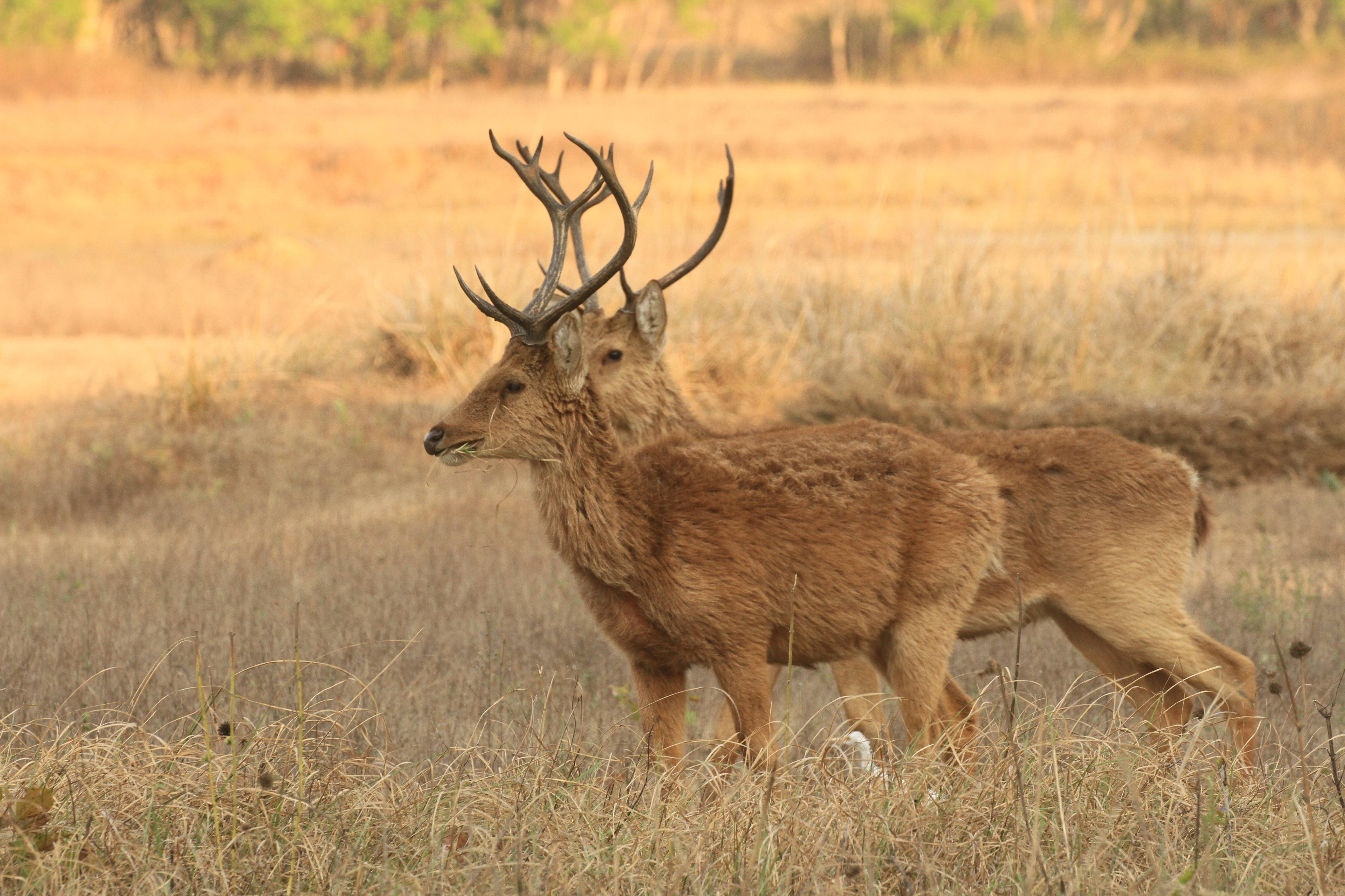 david raju_mammals